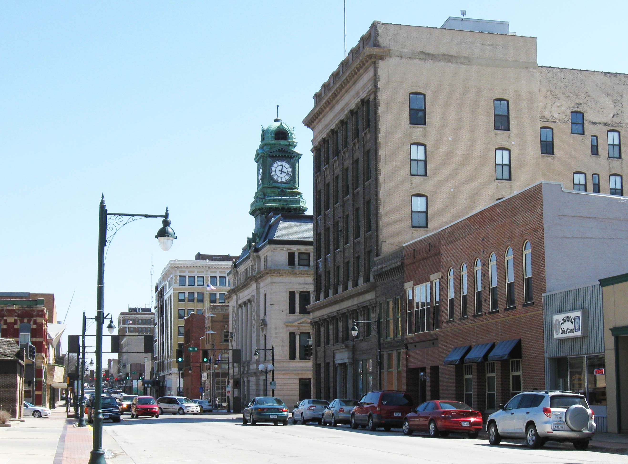 Fort Dodge, Iowa, USA